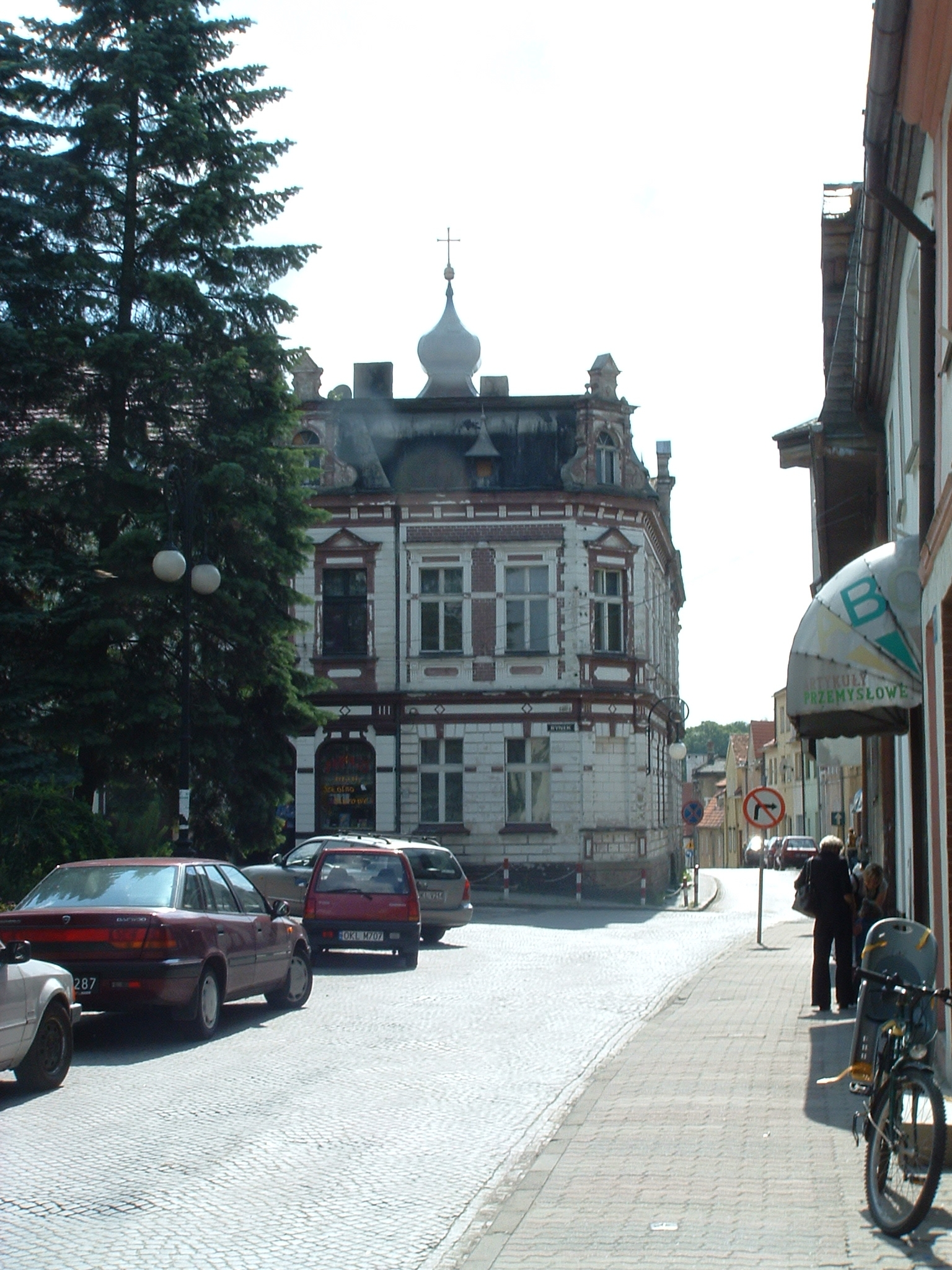 Byczyna